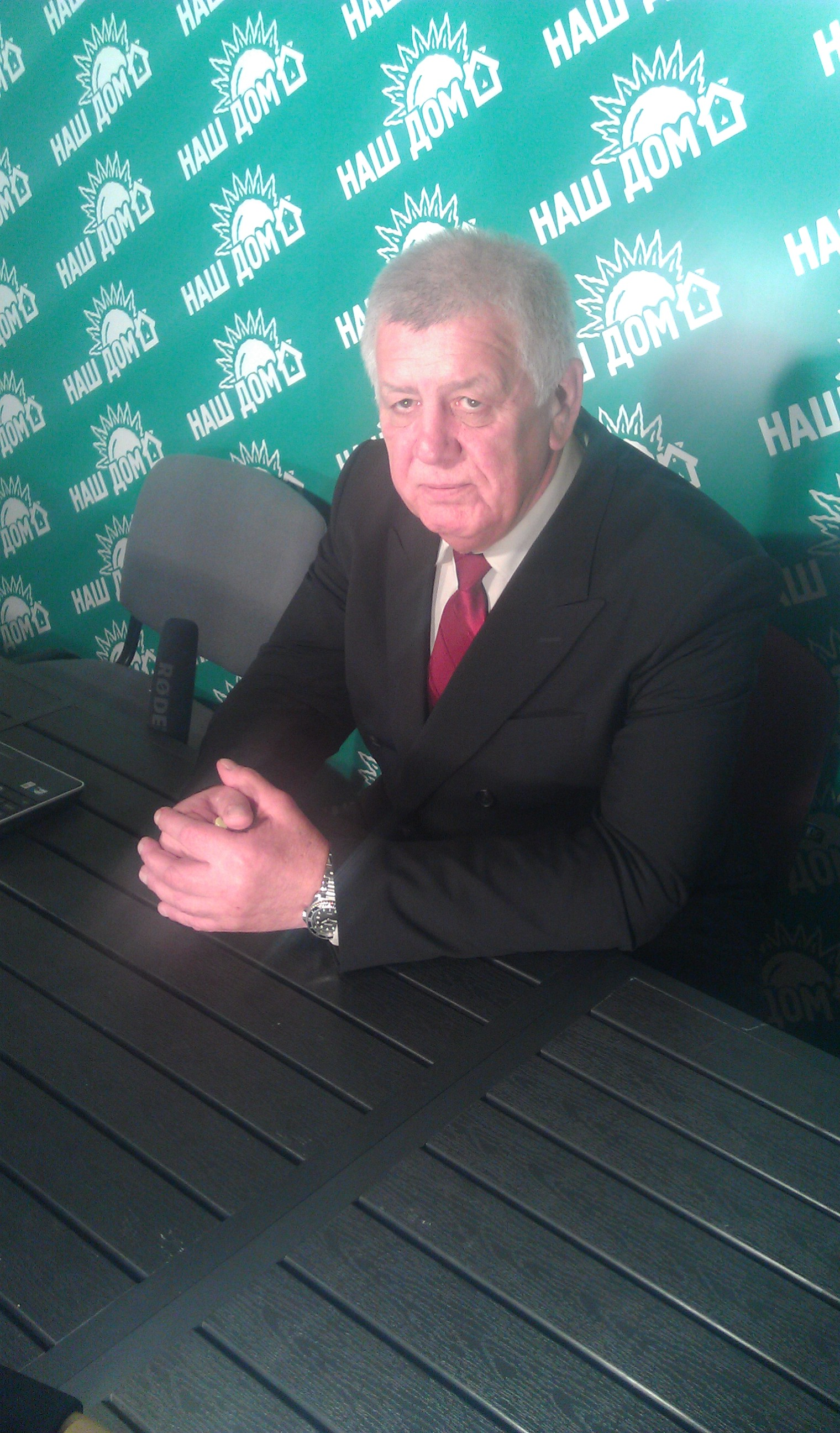 Oleg Leonidovich Alkaev, former head of the jail number 1 (Minsk), author of "Shooters Team"